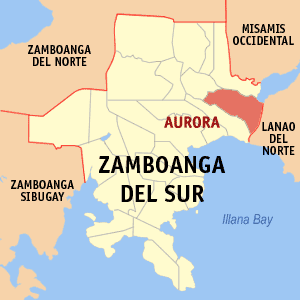 Map of Zamboanga del Sur showing the location of Aurora